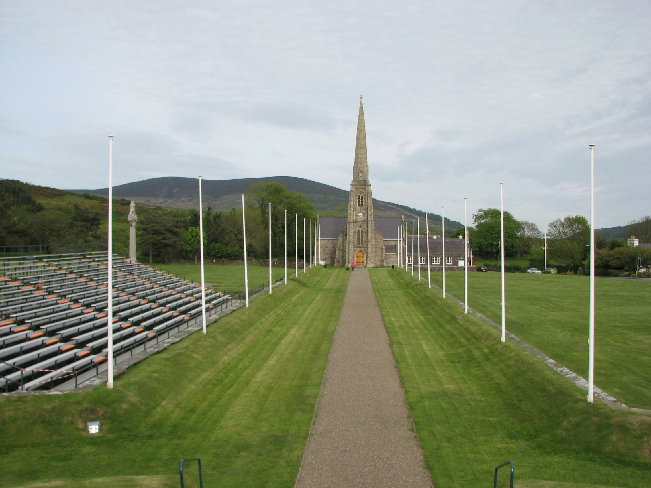 Royal Chapel of St John the Baptist, as seen from Tynwald Hill near St John's, Isle of Man